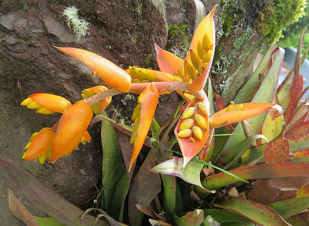 A species found in the mountains of northern South America. Photo from Papallacta Hotsprings, east of Quito, Ecuador. In context at